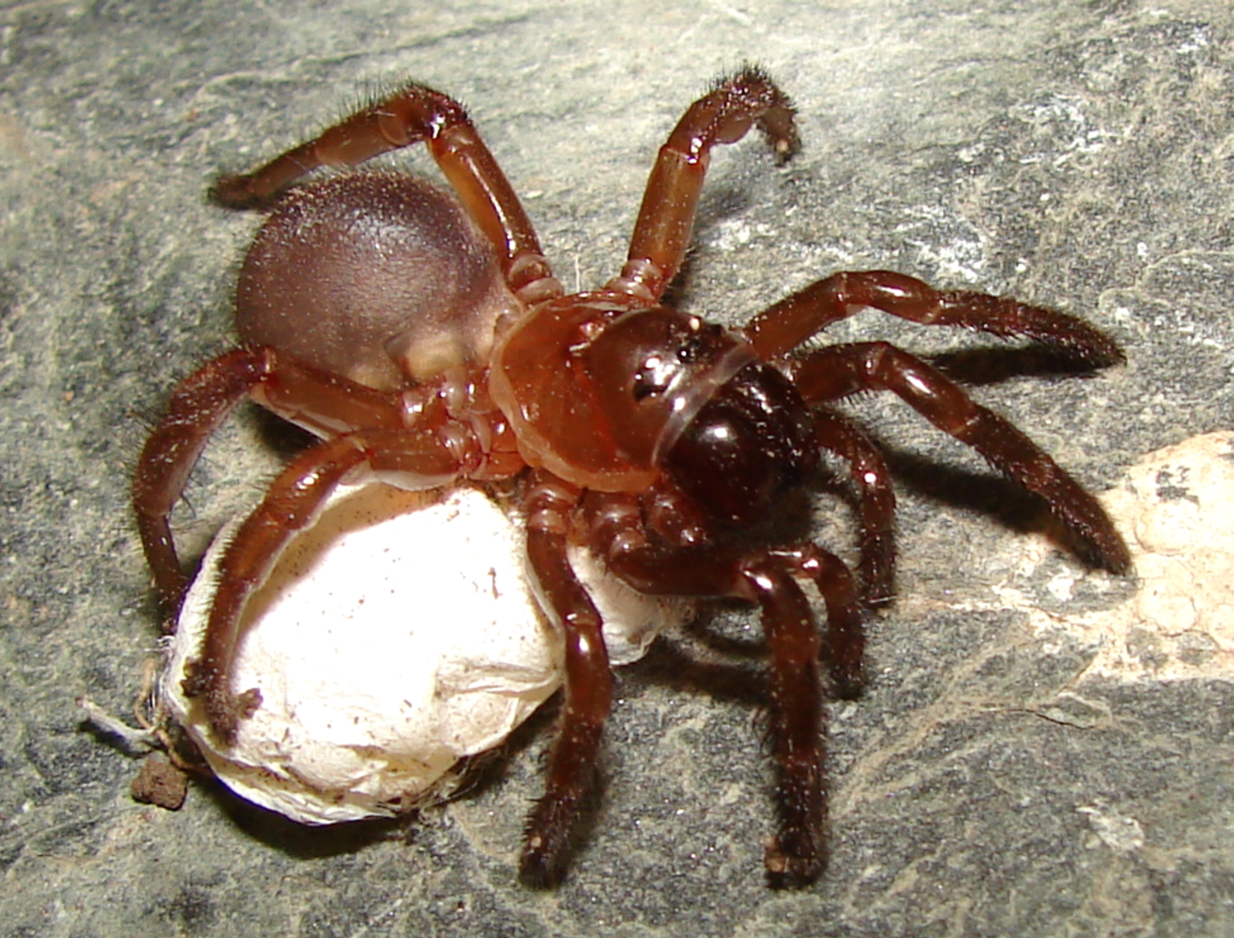 Adult female of Calathotarsus simoni holding an egg sac